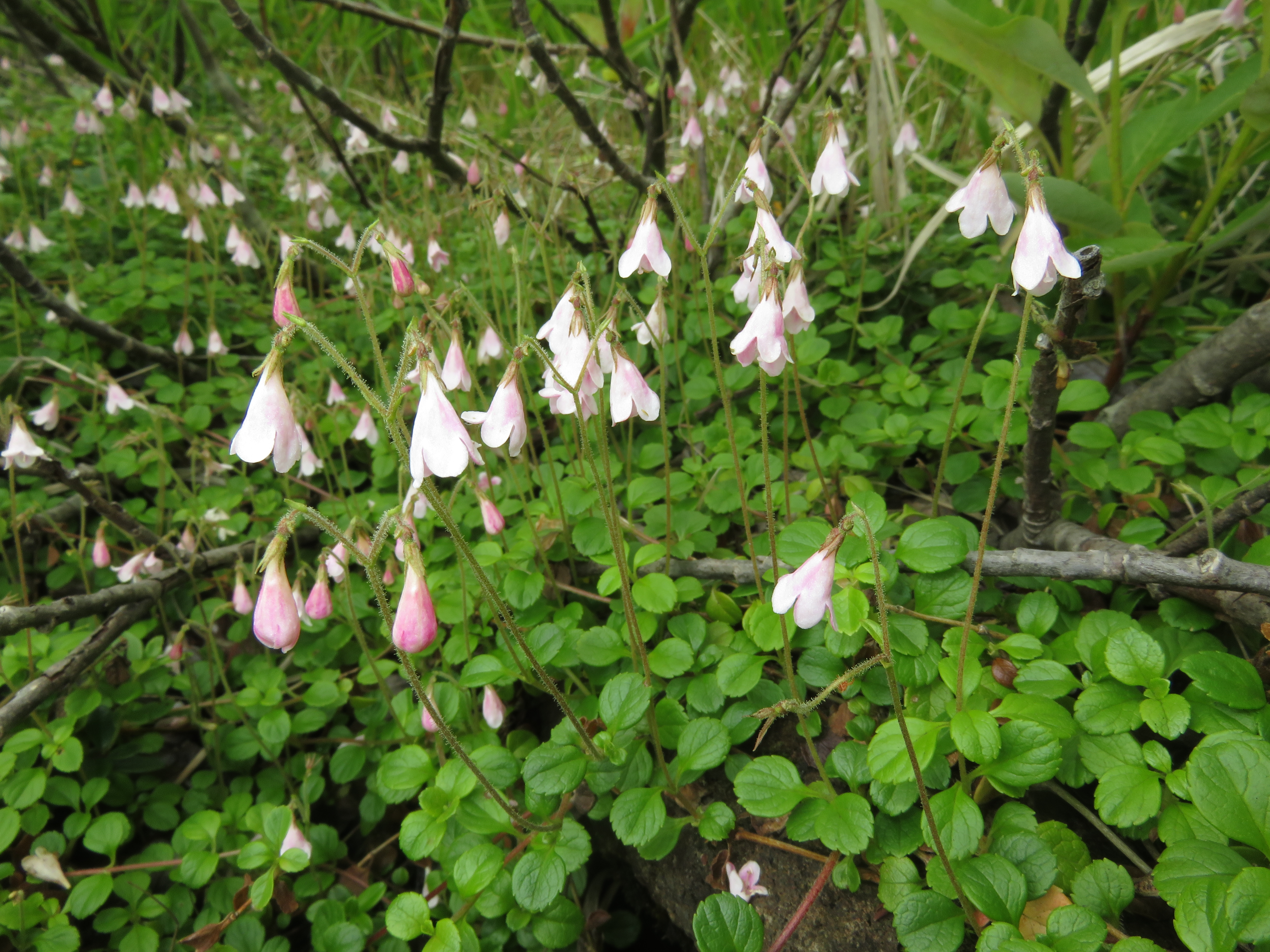 Linnaea borealis, Mount Nishi-Azumayama, Yamagata pref., Japan